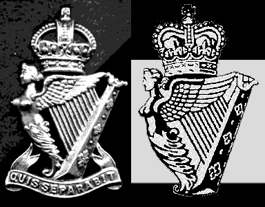 The Royal Ulster Rifles and Ulster Defence Regiment badges side-by-side, showing how the UDR badge was created by breaking off the "Quis Separabit" motto on the Royal Ulster Rifles badge. This image is a derivative of two free images. Left is File:Crest_of_the_Royal_Ulster_Rifles.jpg and right is File:Ulster_Defence_Regiment_Insignia.jpg.